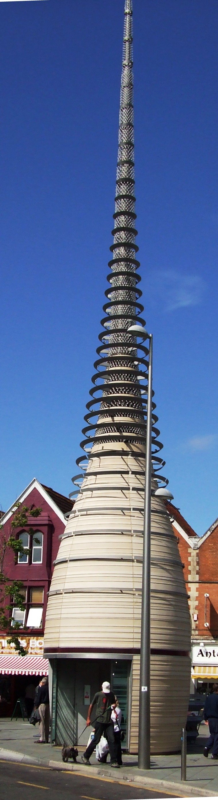 The Carrot in Weston-super-Mare